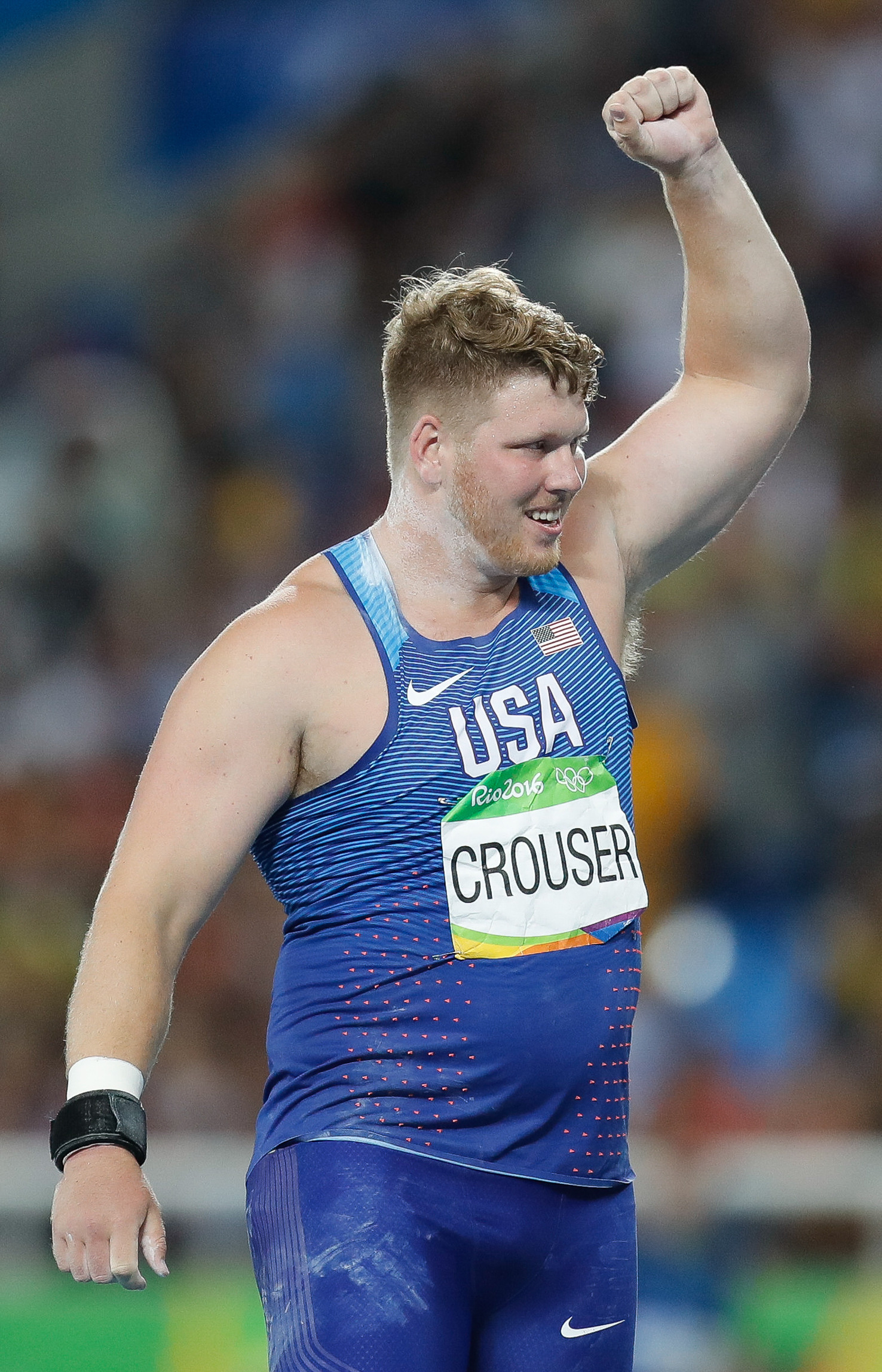 Rio de Janeiro - Norte-americano Ryan Crouser bate recorde olímpico e leva ouro no arremesso de peso nos Jogos Rio 2016, no Estádio Olímpico. (Fernando Frazão/Agência Brasil)